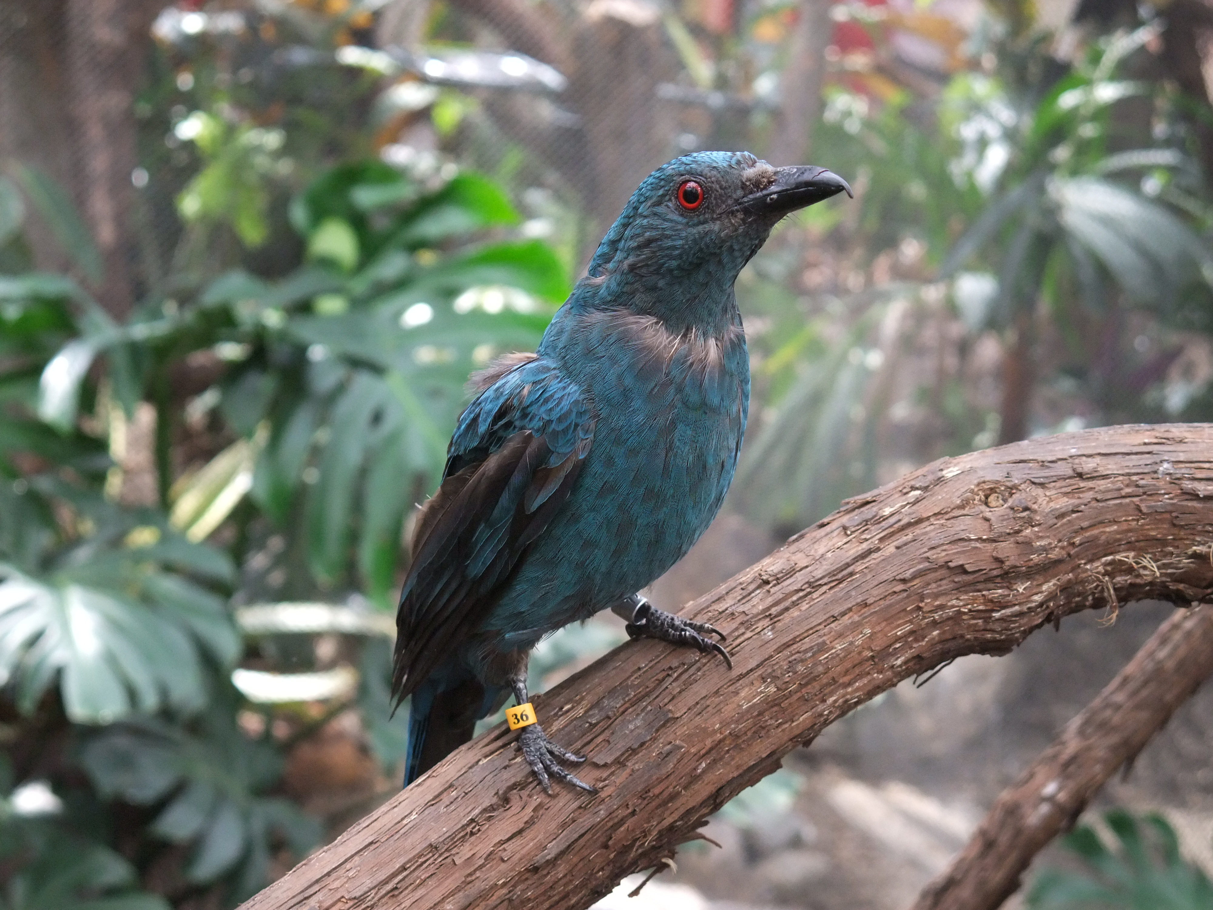 A photograph of a female Irena puella taken at the Philadelphia Zoo in the McNeil Avian Center.